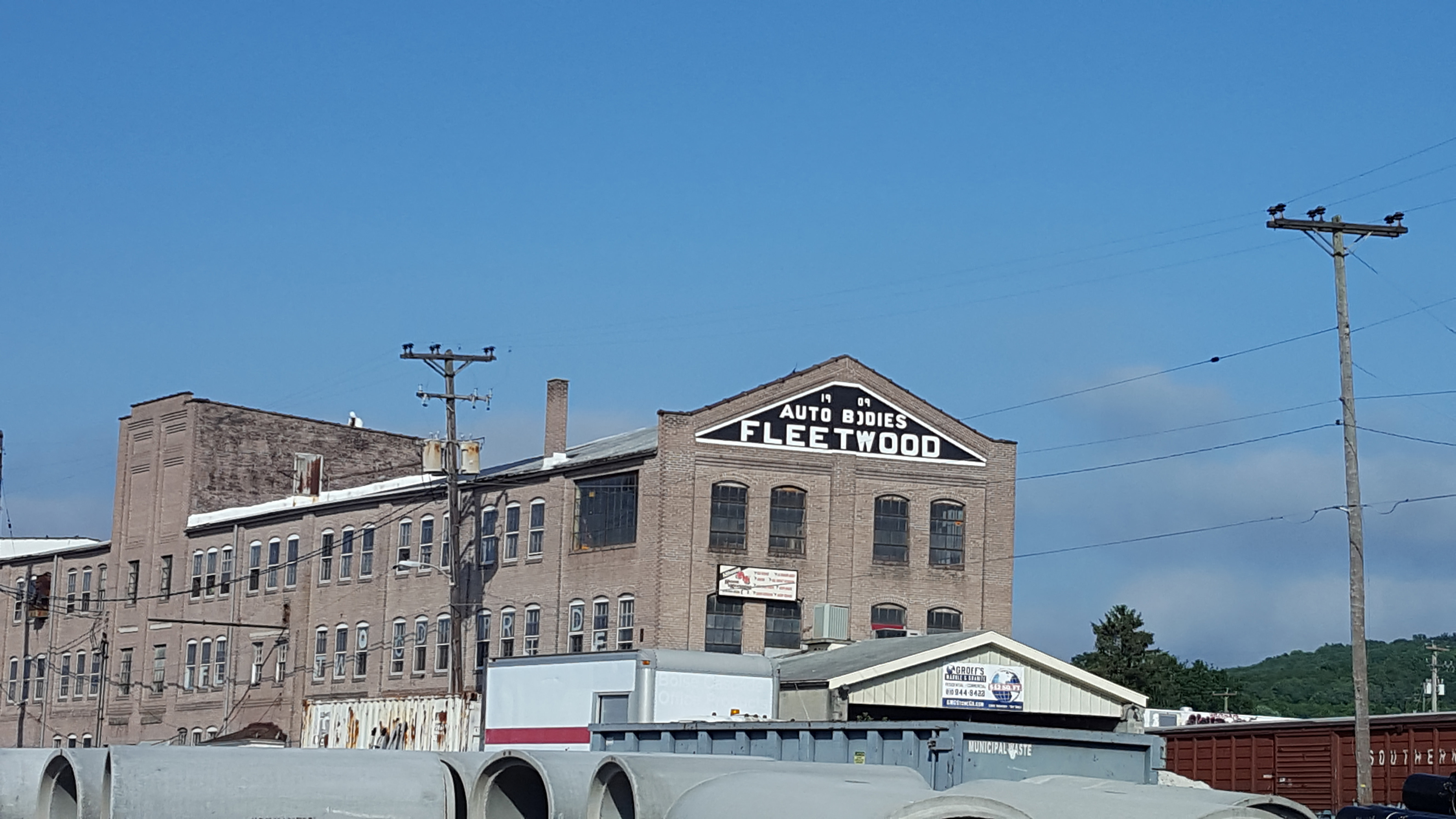 Fleetwood Metal Body Works pictured as of July 2016. Painted sign was restored in 2002.